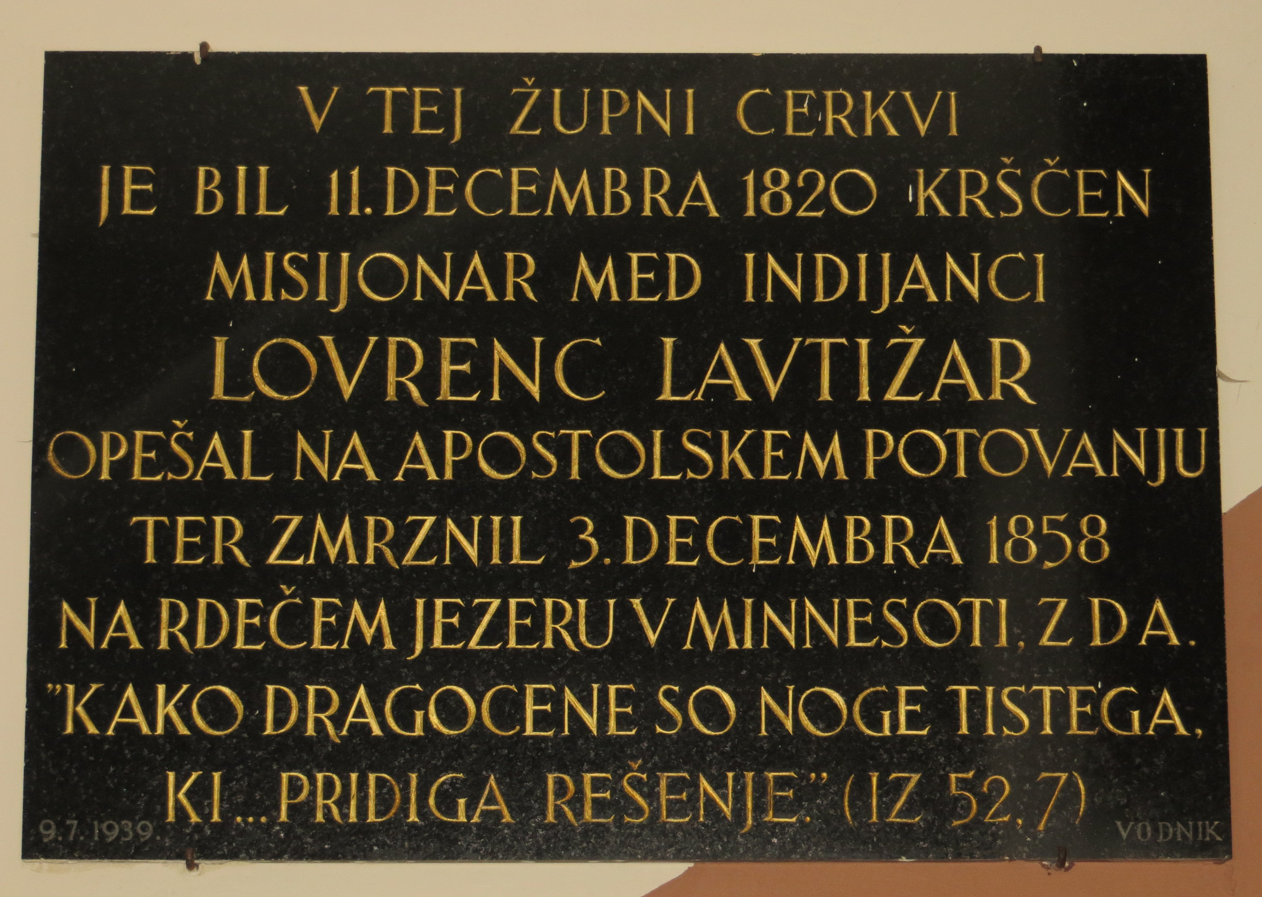 Plaque in Assumption Church, Kranjska Gora, Slovenia commemorating the missionary Lovrenc Lavtižar (1820–1858). "Lovrenc Lavtižar, a missionary among the Indians, was baptized in this parish church on December 11th, 1820; he became exhausted during his apostolic travels and froze to death on December 3rd, 1858 at Red Lake, Minnesota, USA. 'How beautiful are the feet of him that ... publisheth salvation' (Isaiah 52.7)."